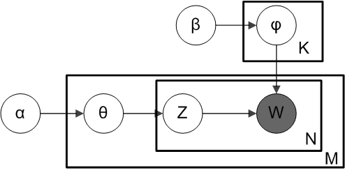 Plate notation of the Smoothed LDA Model